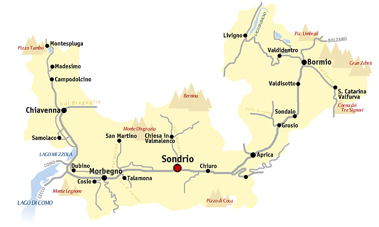 Map of province of Sondrio.